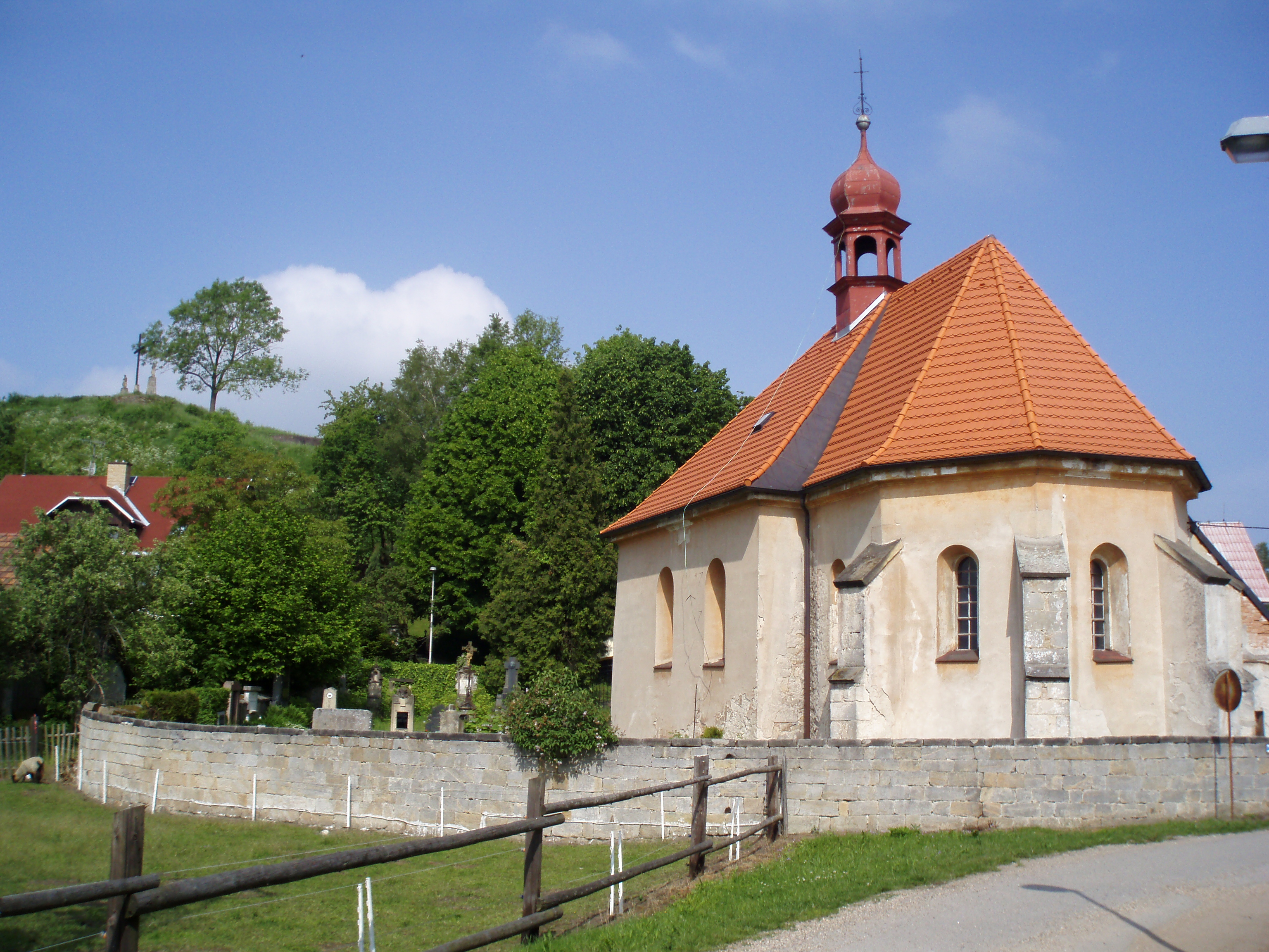 St Bartholomew church in village of Brada, Brada-Rybníček municipality, Jičín District, Czech Republic